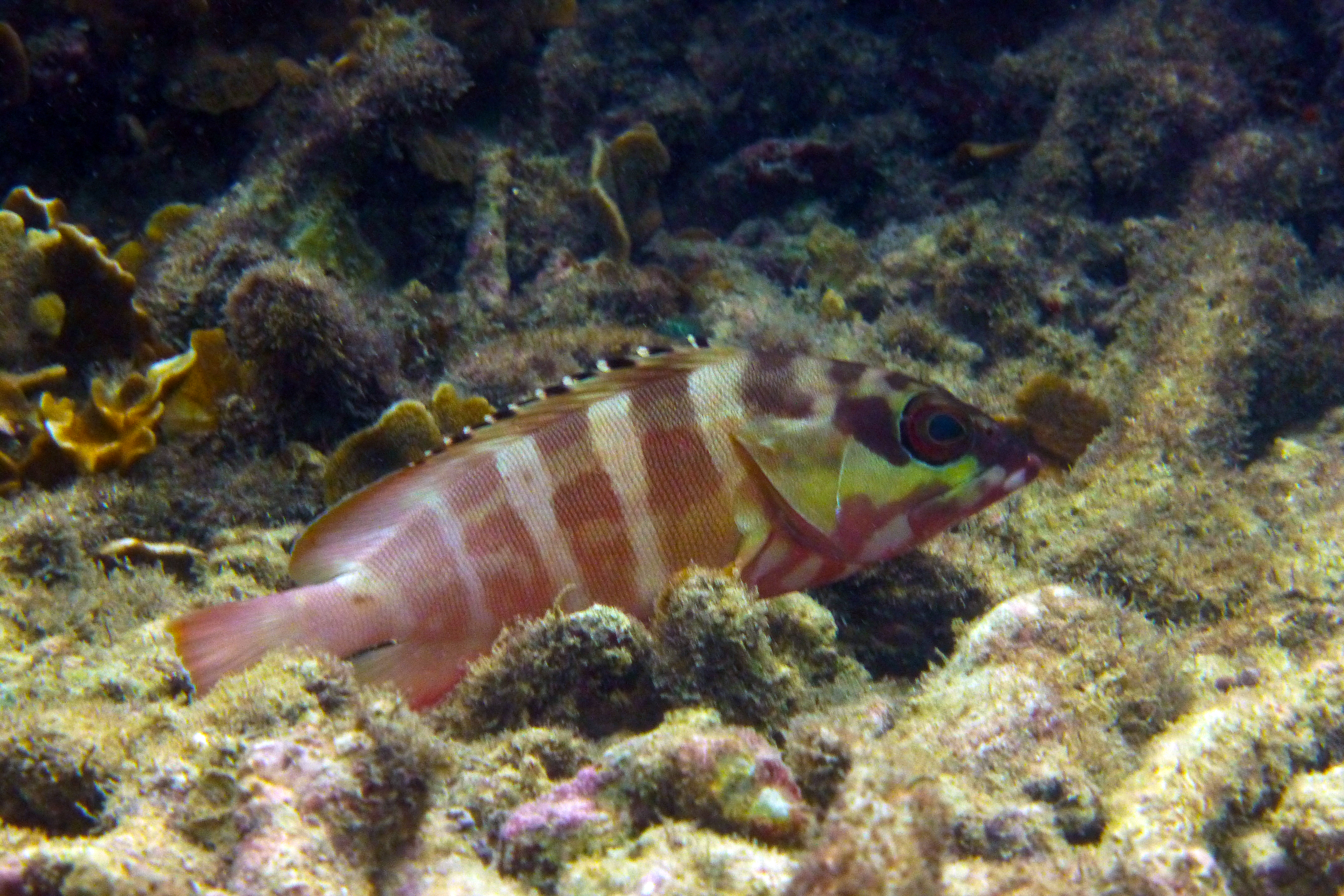 Underwater photographs of plants and animals from diving sites around Ko Tao, Thailand.